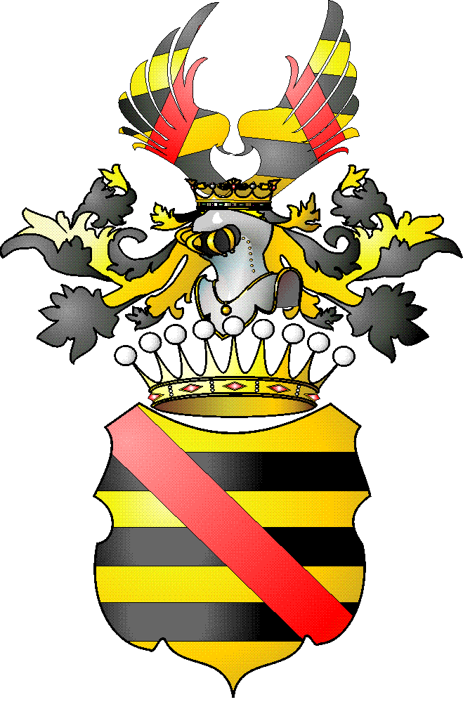 CoA of family Broel-Plater